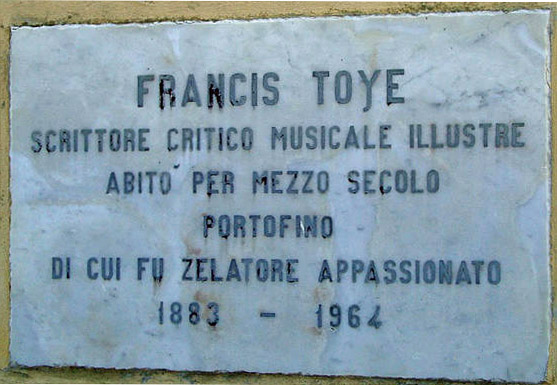 A memorial plaque for Francis Toye on a church wall in Portofino, Italy. The church is called la Chiesa di San Giorgio.